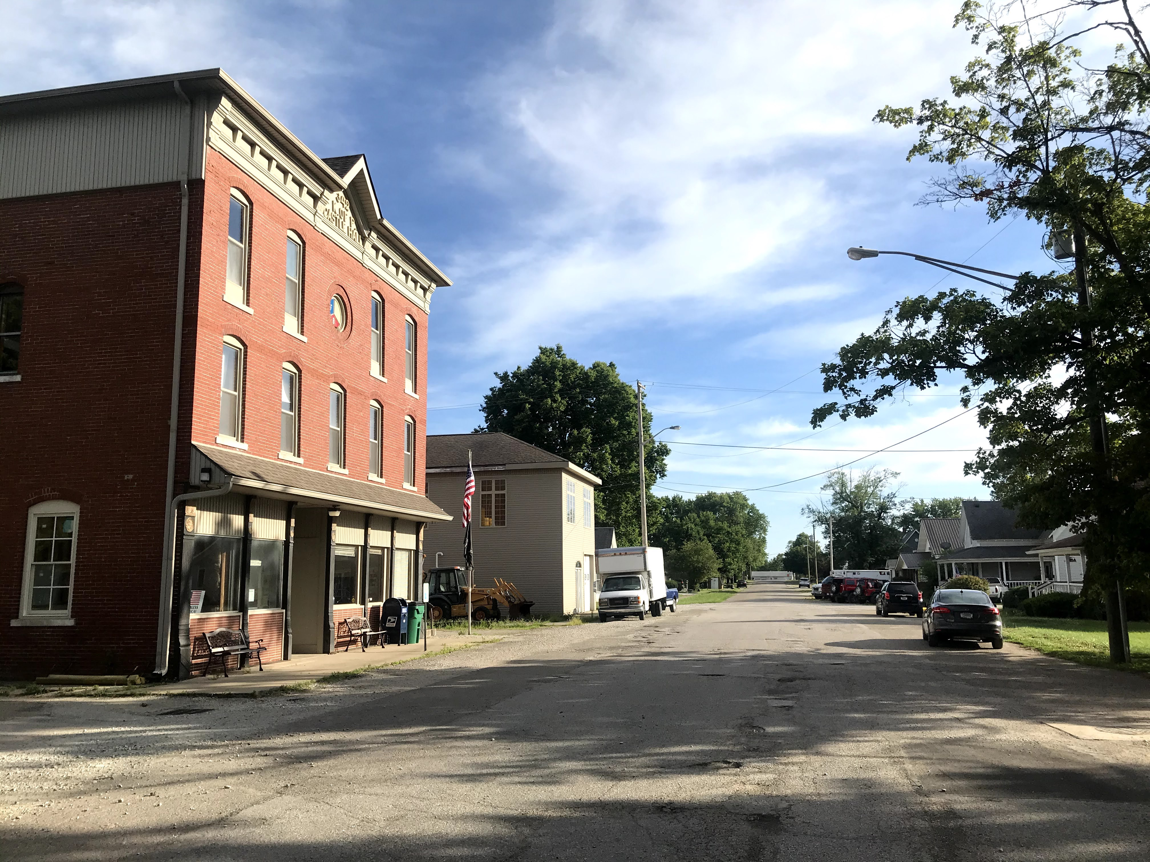 Church Street, Lizton, Indiana